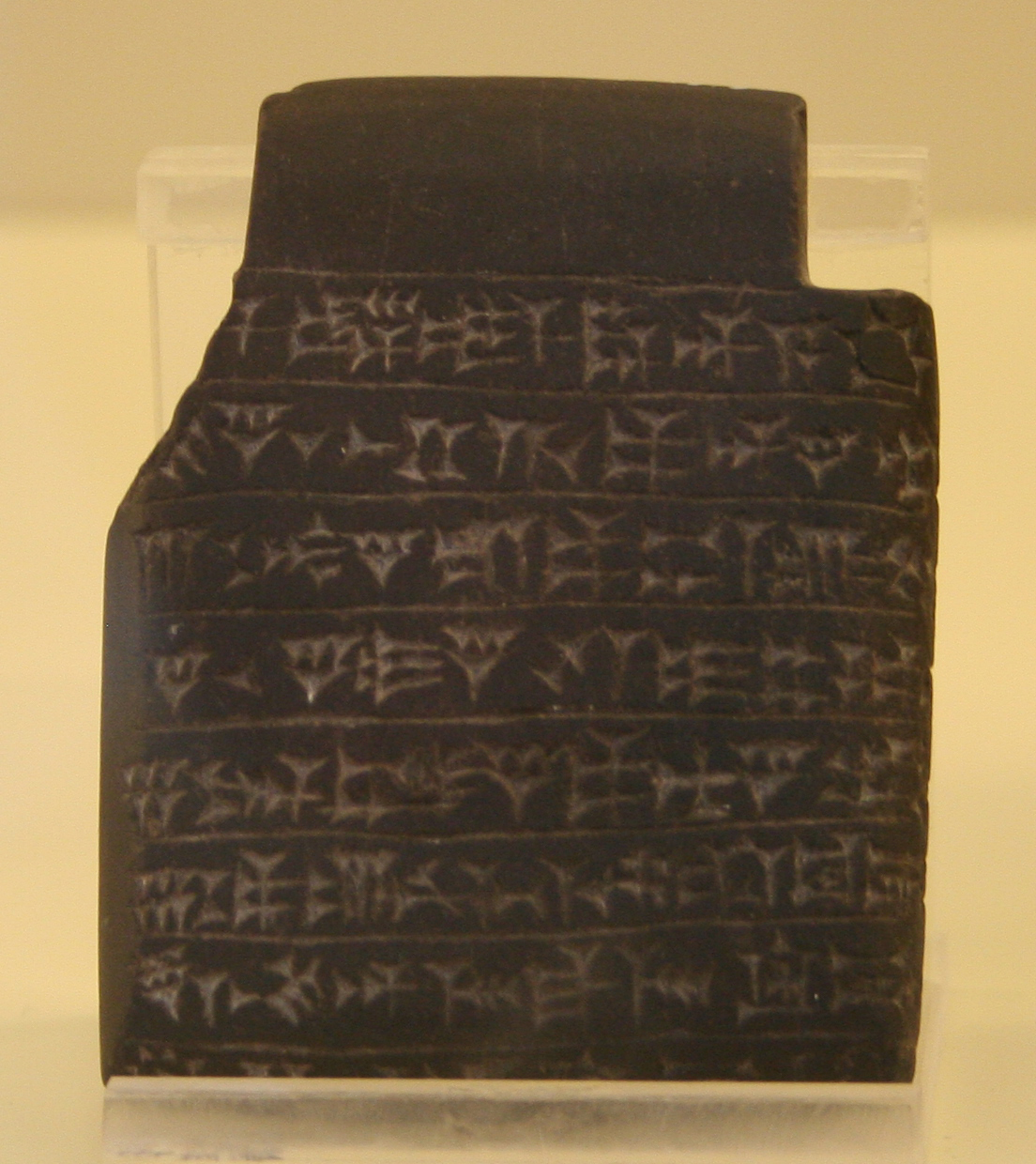 Vorderasiatisches Museum (Near East Museum), Berlin